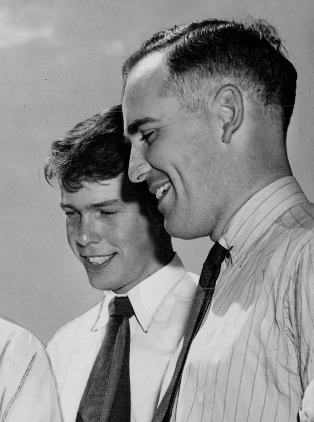 Toronto men bound for Olympics seen admiring a Canadian blazer; are from left: John Robertson and Bill Gooderham. They will compete in sailing races when they reach England.